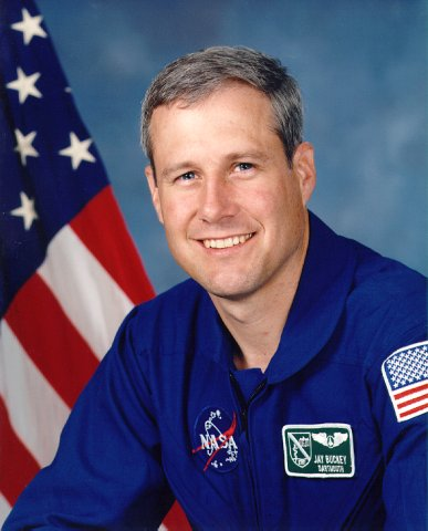 portrait astronaut Jay Buckey